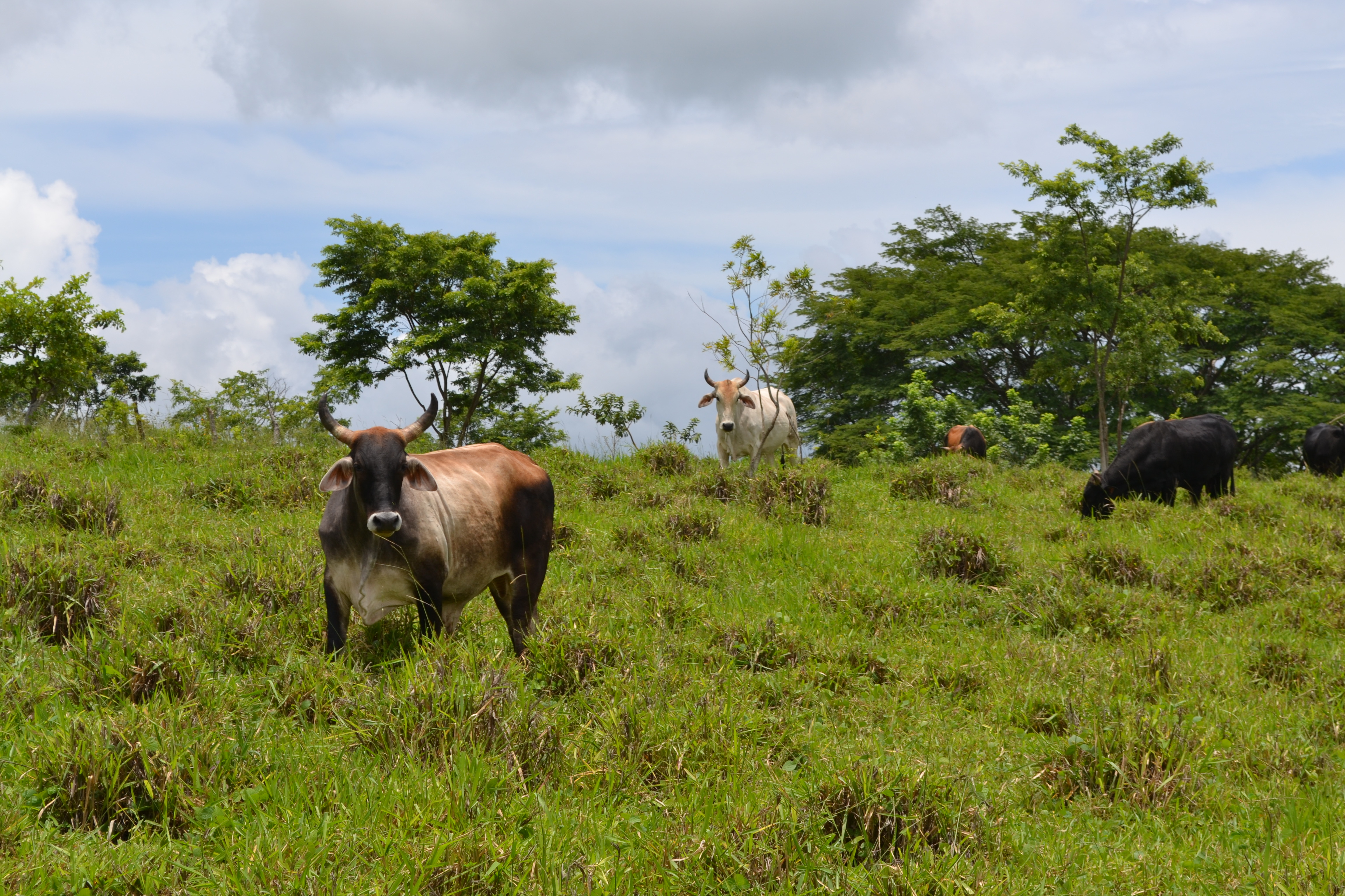 Cows on a hillside in Southern Nicaragua.